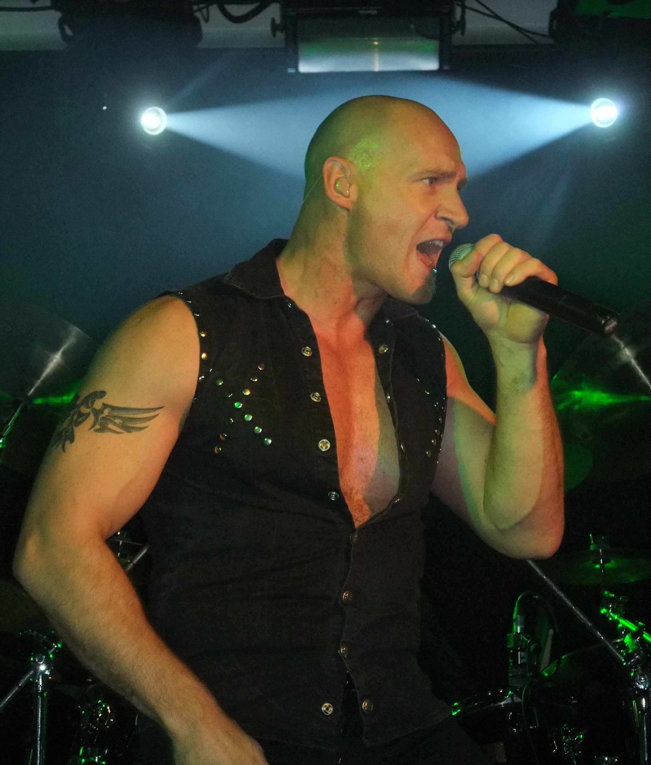 Ralf Scheepers performing live with Primal Fear at The Garage in London, 25th September 2009